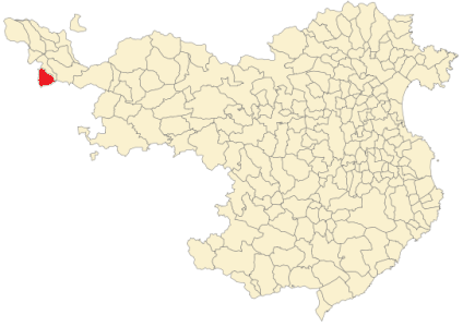 Urús